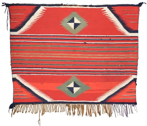 Late Classic single saddle blanket Tapestry weave, interlocked joins 0.795 x 0.68 m; Fringe 0.060 m 26.772 x 31.299 in.; Fringe 2.362 in Diné bizaad: Akʼidahiʼniłí